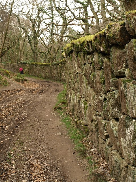 Wall of Whiddon Deer Park "Probably a medieval deer park; the walls may be medieval as well. Granite rubble but carefully built and using large pieces of granite. The wall stands up to 3 metres high in places and has flat coping projecting very slightly." A remarkably intact survival. The footpath along the south side of the River Teign runs inside the wall southwest of 1243613.